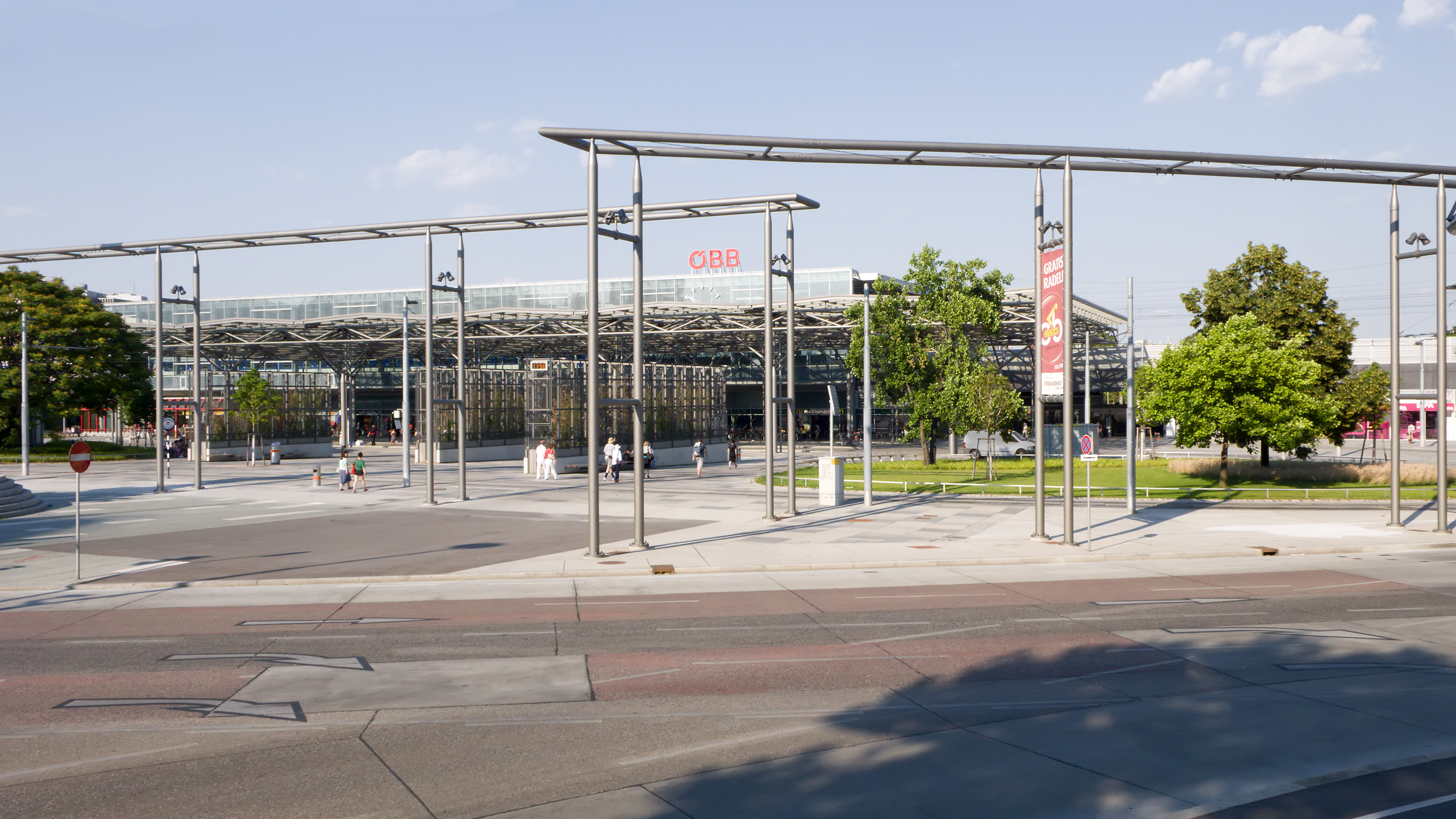 Railway station Bahnhof Wien Praterstern in Vienna Leopoldstadt